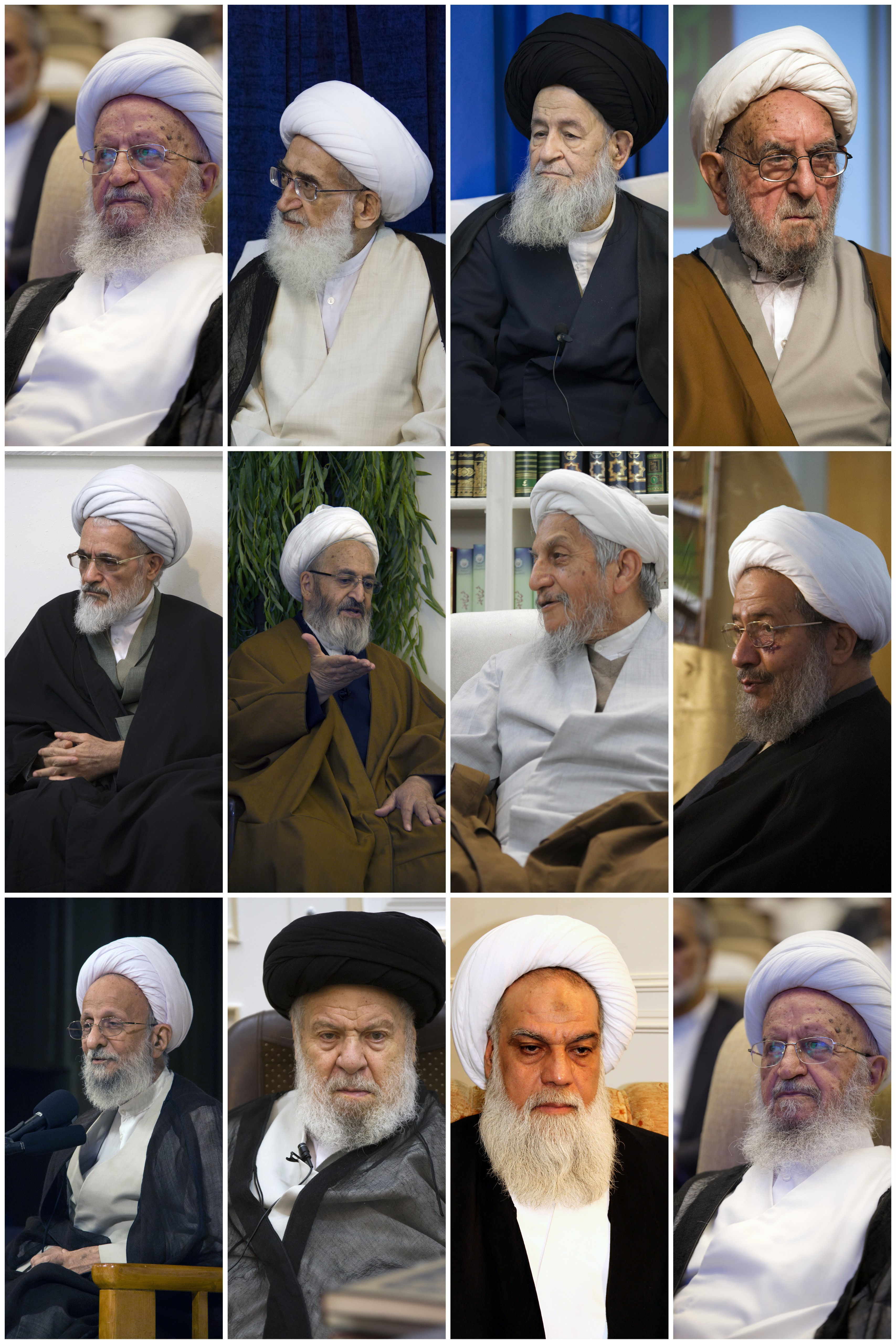 Grand Ayatollahs, Photo Collage